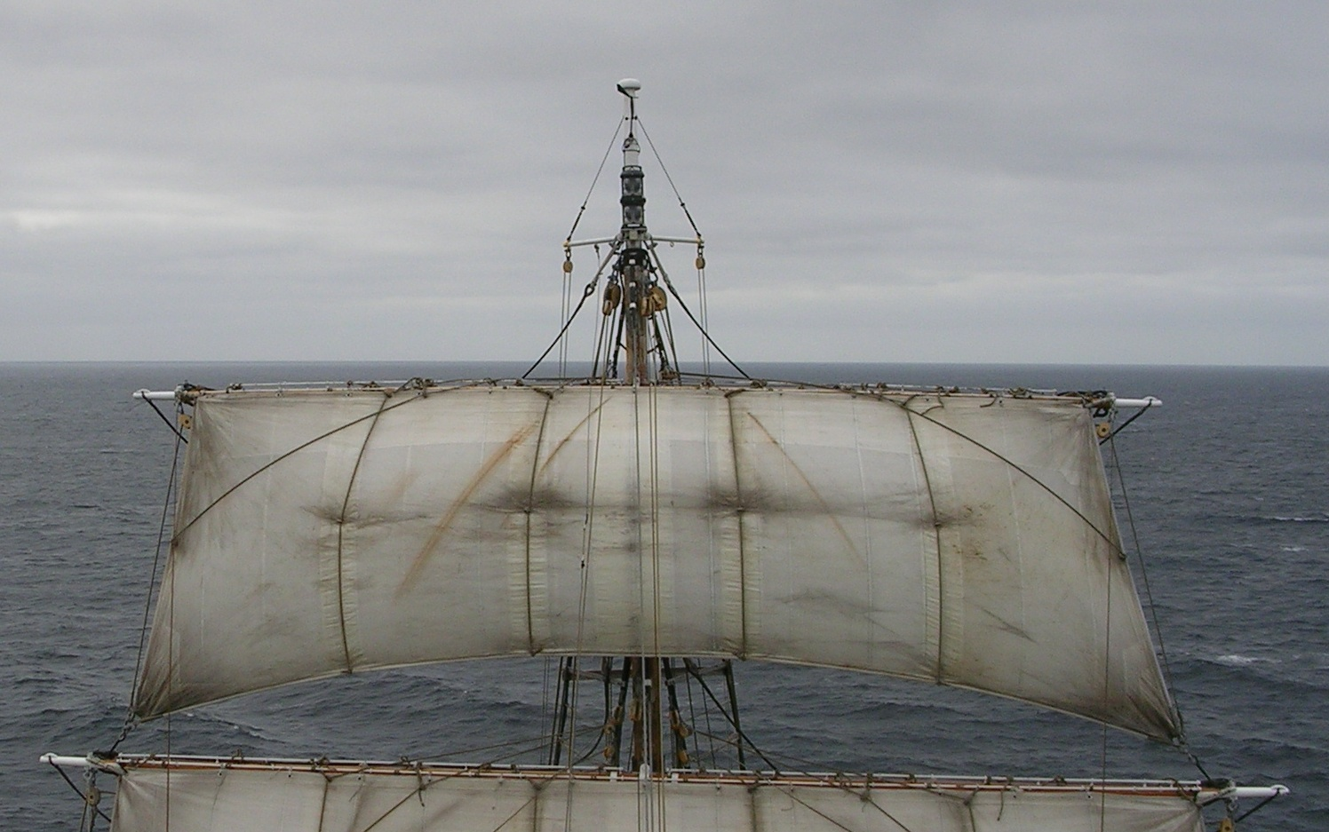 Prince William's mainroyal.